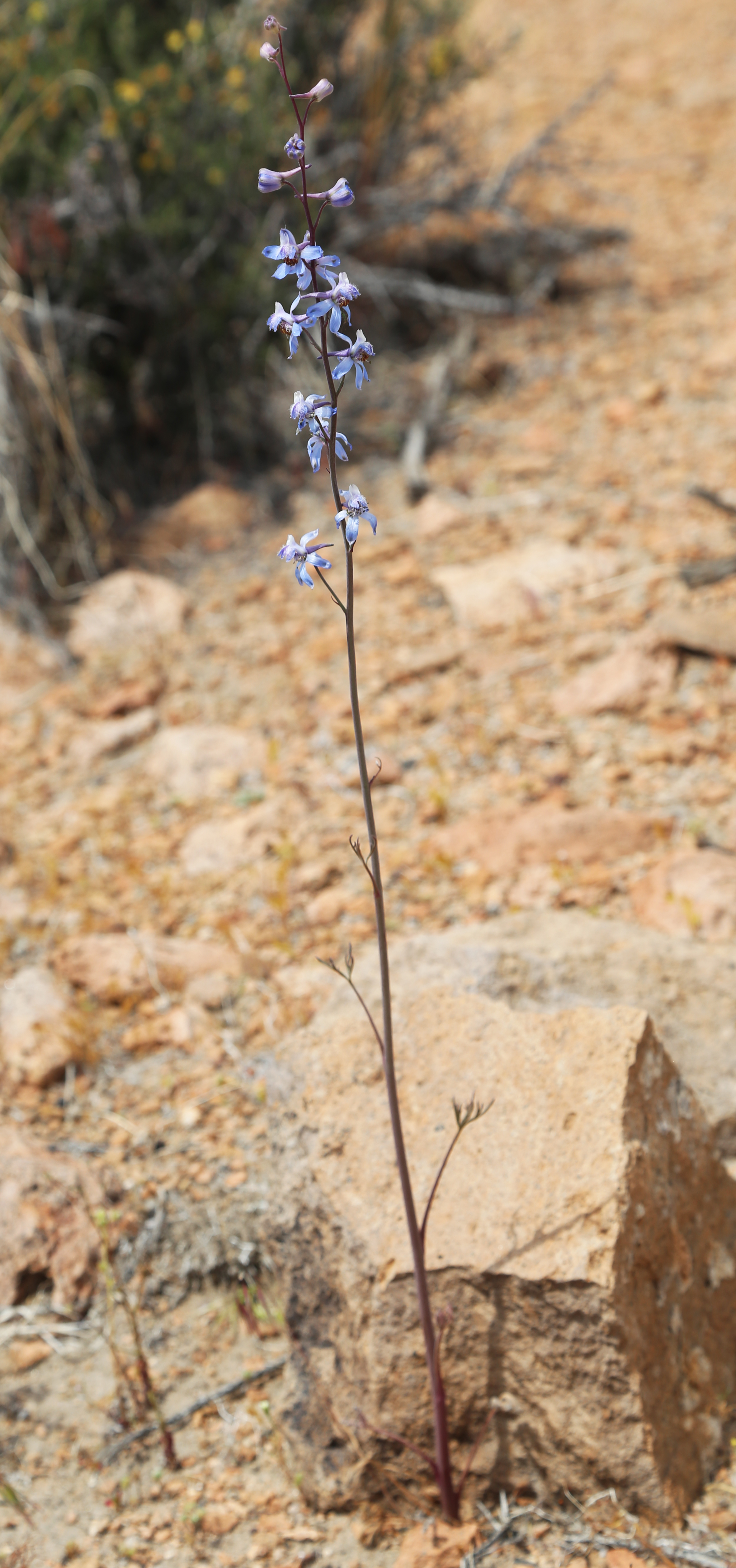 Desert larkspur (Delphinium parishii) plant stalk with buds and flowers. At about 5,500 ft (1,700 m) in desert scrub, between Paradise and wall Meadows, Mono County, California, in the Eastern Sierra.